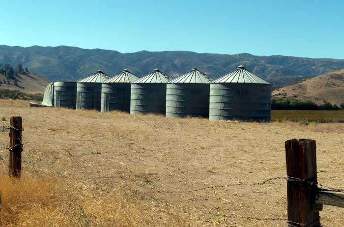 Water tanks in a field south of the Three Points settlement, October 2008. Photo by George Garrigues.